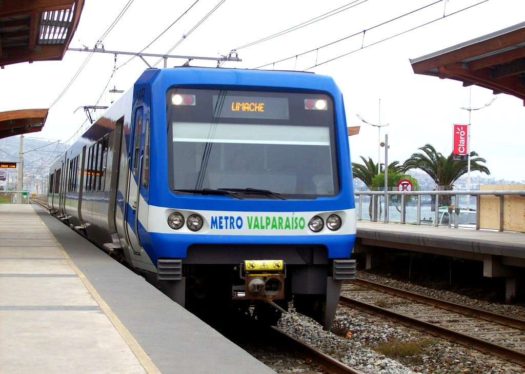 Metro Valparaiso - Limache bound unit at the station in Portales (Chile)